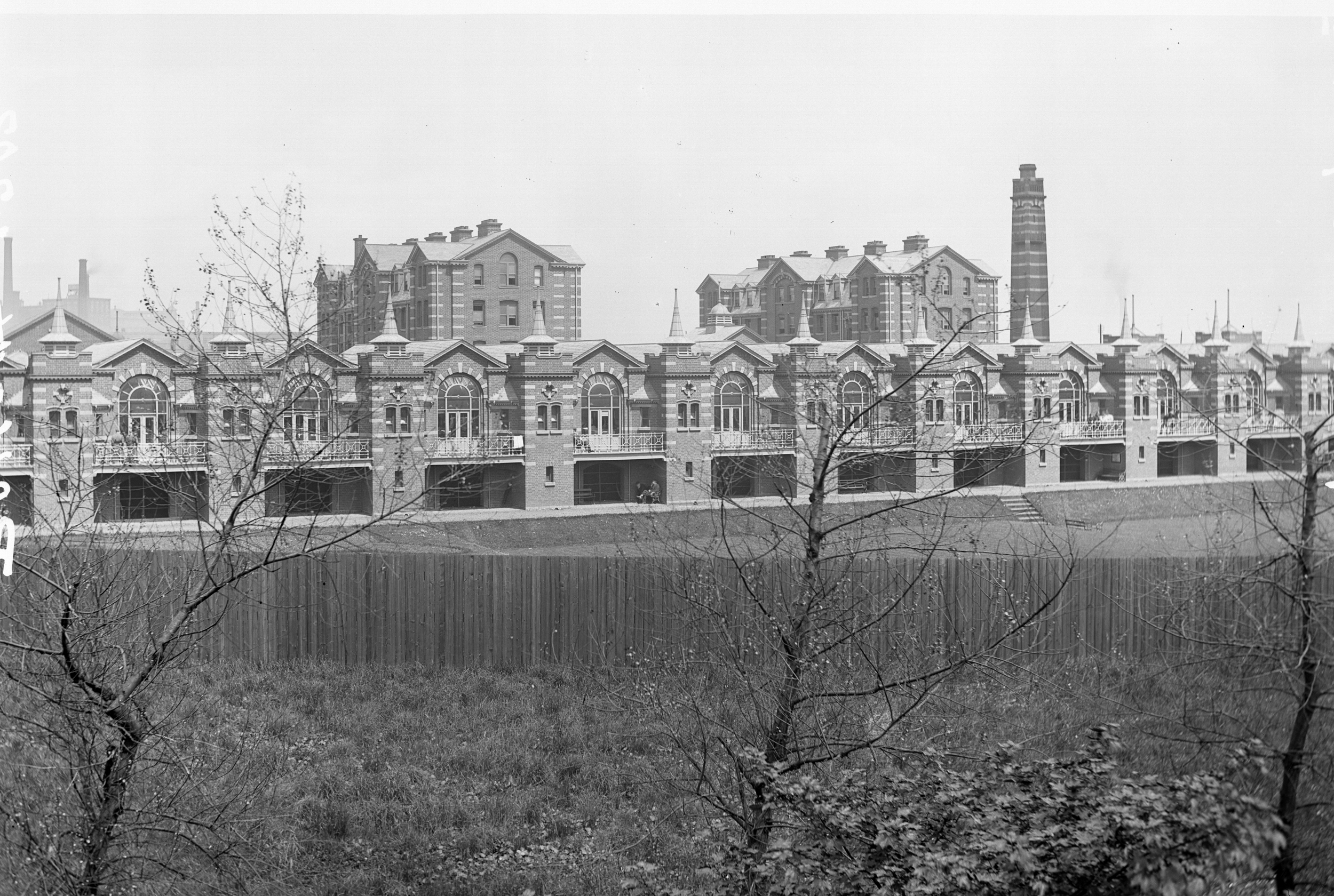 We uncovered a gremlin catalogue record! This fine edifice was allegedly Beauparc, Slane, Co. Meath. Now if you have a look at some of our Beauparc photos , you'll see that "one of these things is not like the other. One of these things just doesn't belong". Its glass plate negative number came in the middle of a load of Belfast city centre images, and it turns out this is the Royal Victoria Hospital in Belfast - thanks to Niall McAuley and Tin of beans! Date: Between 1903 and 1914 NLI Ref.: L_CAB_04203